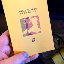 Yes Cymru booklet, 'Annibyniaeth yn dy Boced' | 'Independence in your Pocket', 2017